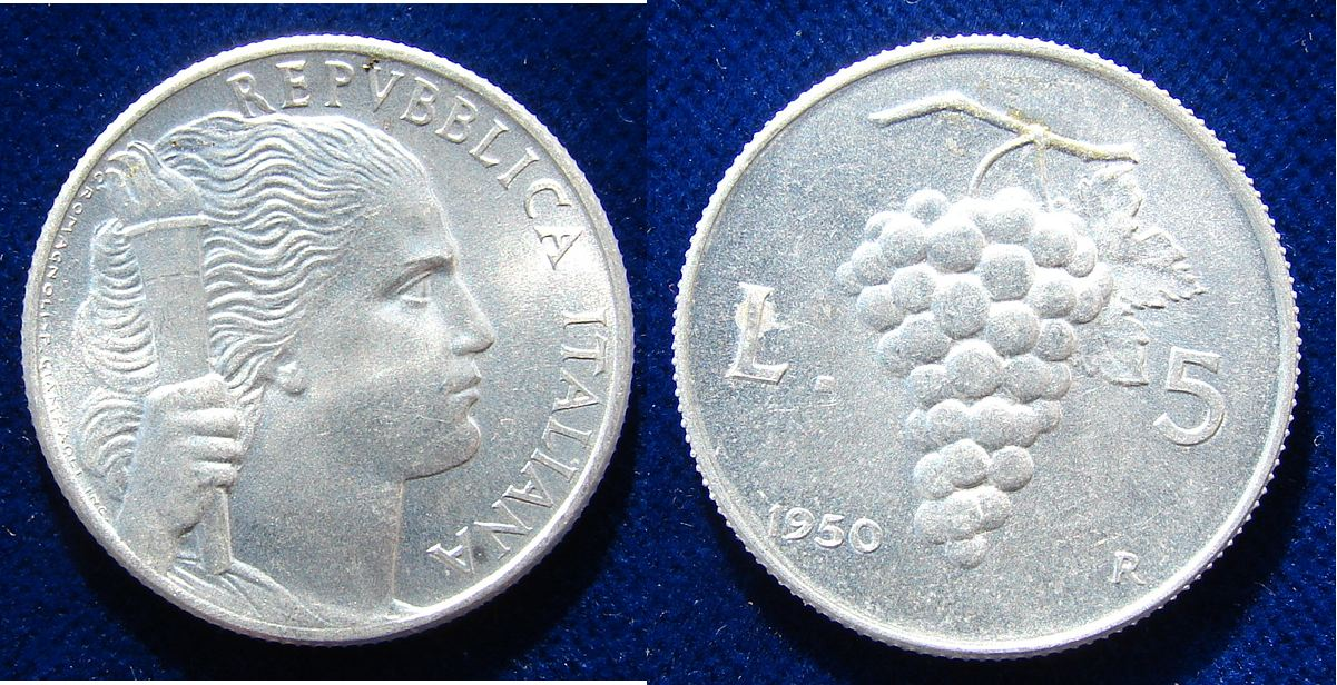 Italy (Republic) 5 Lire 1950 UNC Coin. D. = 27 mm Al Head of Italia holding torch r., curved at r.: "REPVBBLICA ITALIANA" /Grape cluster between value, date below l. KM 89. Medallists: G. Romagnoli, Designer, * 1872 Bologna † 1966 and P. Giampaoli, Engraver, * 1898 Urbignacco di Buja, Province of Udine, Italy † 1998 Rome Condition: Almost UNCIRCULATED